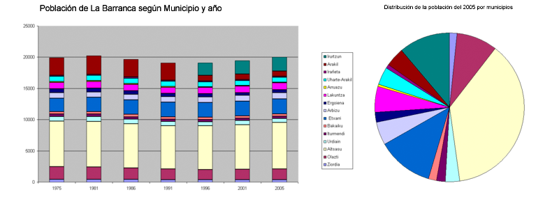 Graphics of population in Sakana municipalities.